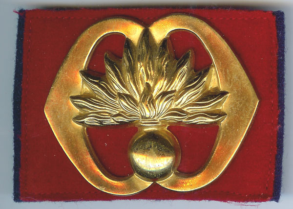 Dutch cap badge of the Grenadier Guards